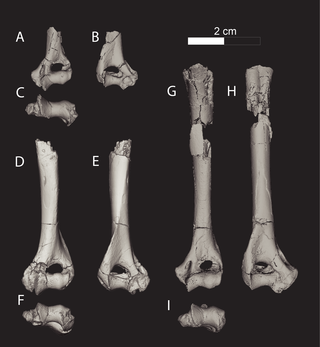 Masrasector; left humerus of Masrasector; A-C: DPC10831 A: anterior view; B: posterior view; C: distal view; D-F: DPC15436 D: anterior view; E: posterior view; F: distal view; G-I: DPC11670 G: anterior view; H: posterior view; I: distal view; digital models; Fayum (Egypt)